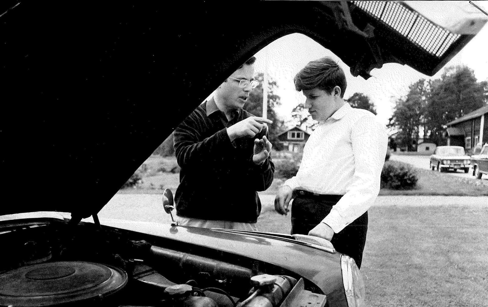 Photograph of the Russian pianist Grigory Sokolov (1950–) during his visit to Finland, here examining a car engine together with the conductor Stephen Portman (1935–).